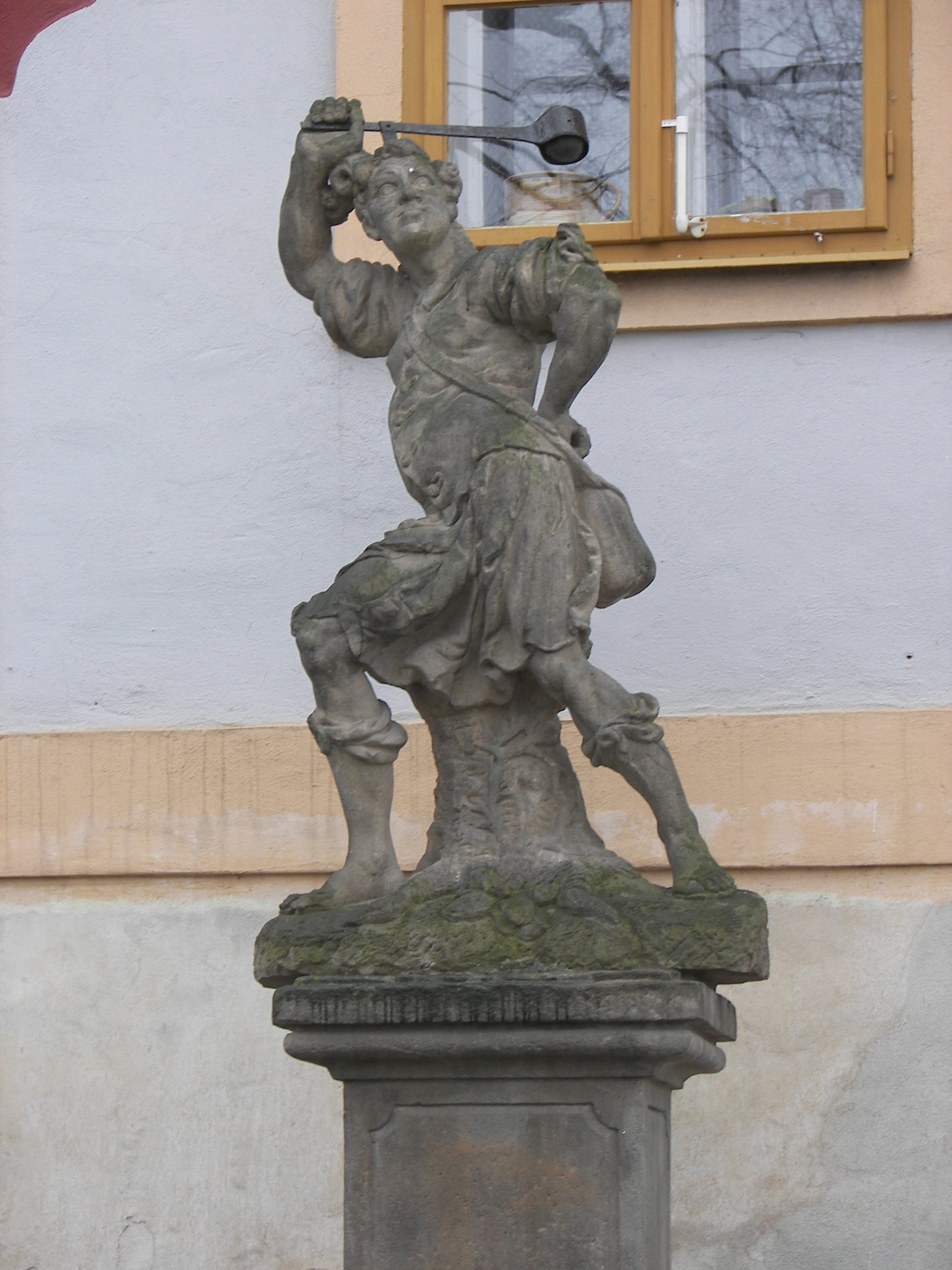 David sculpture in Kuks It is by Goliash statute Author:Stanislav Jelen